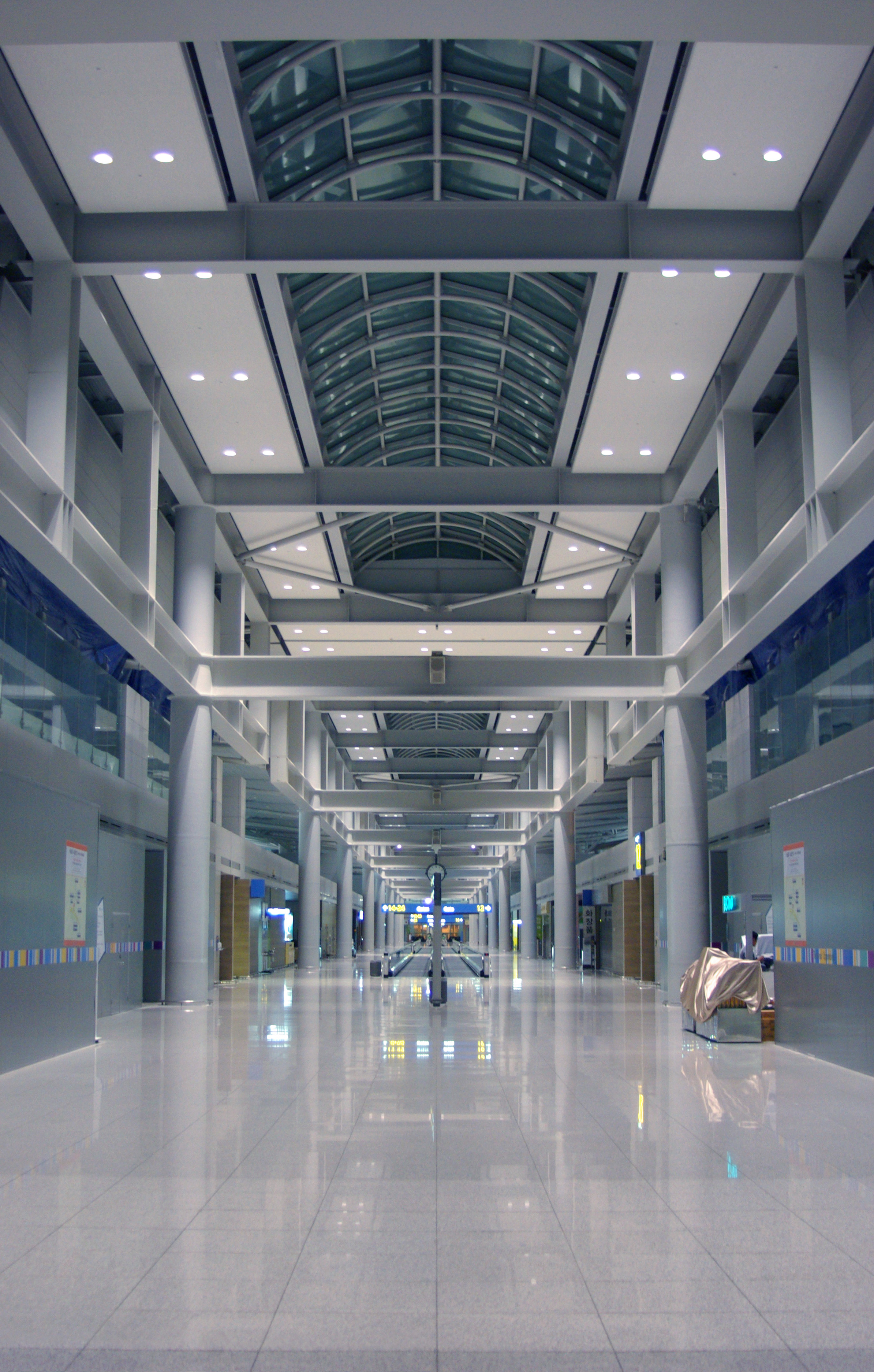 Photo of the Seoul Incheon International Airport.